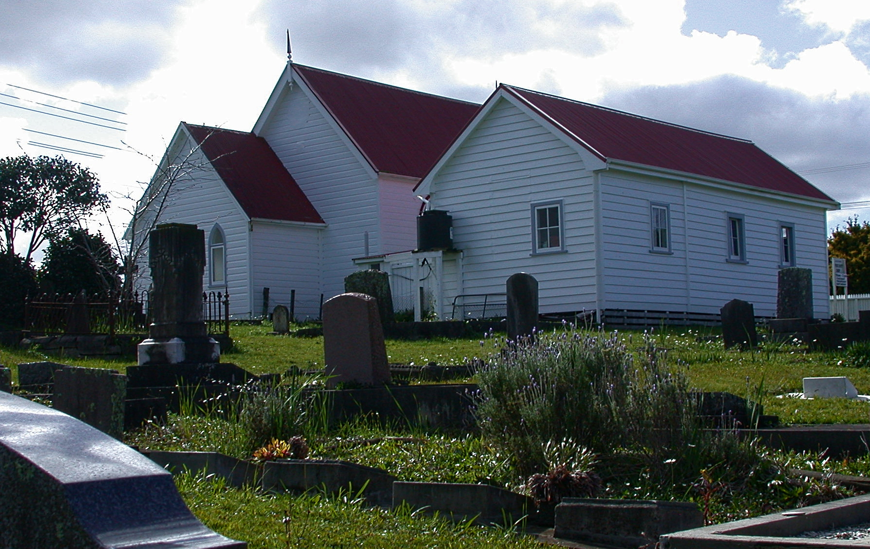 Anglican Curch, Kaipara Coaast Highway/Peak Road; Kaupapakapa, NZ